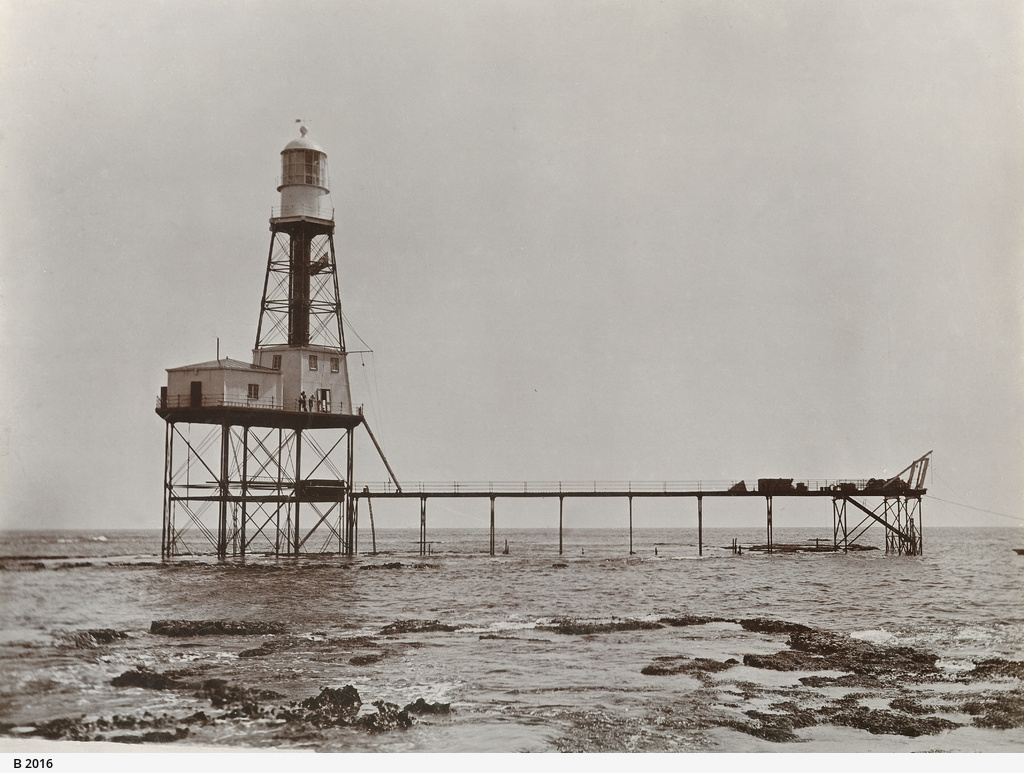 [On back of photograph] 'Cape Jaffa Lighthouse. Circa 1910' [General description] Cape Jaffa Lighthouse, showing the Lighthouse and its pier, where ships can tie up and unload stores. A small group of men stand on its balcony, looking out over the reef, which can be seen in the foreground. Established in 1872 on Margaret Brock Reef off Cape Jaffa, at the end of its service, the screw pile lighthouse was dismantled and reassembled at Kingston.